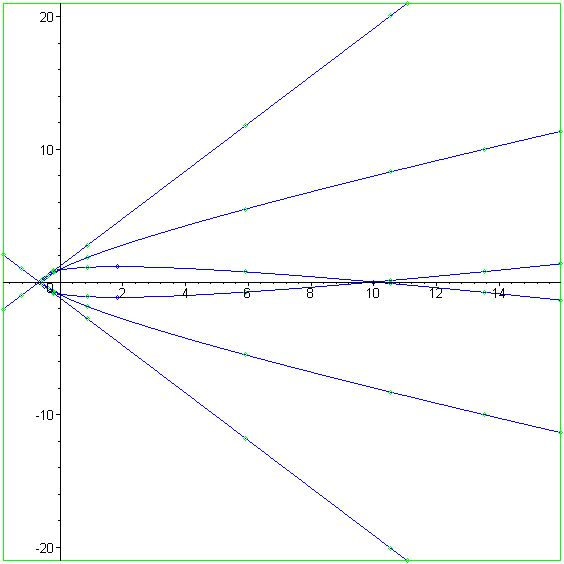 This is an image of the dual curve to the ampersand curve.